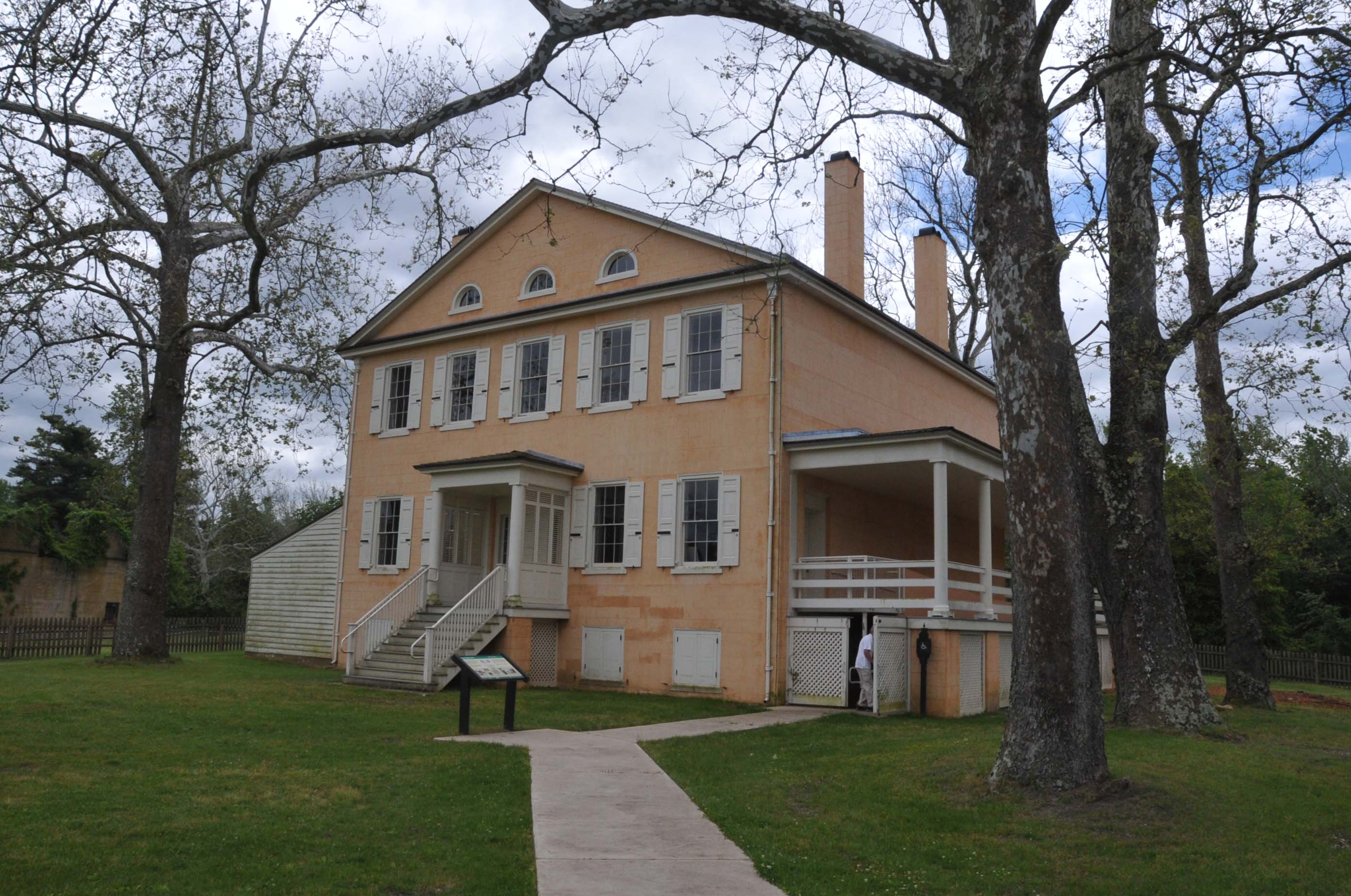 SAMUEL RICHARDS MANSION BUILT IN 1826 AND THE CENTERPIECE OF THIS IRON-MAKING VILLAGE OF THE 1800'S